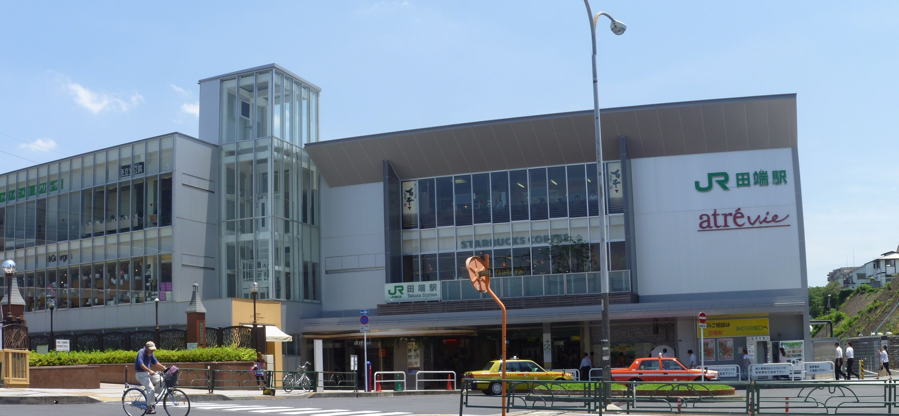 Tabata station (田端駅) North Exit (北口)